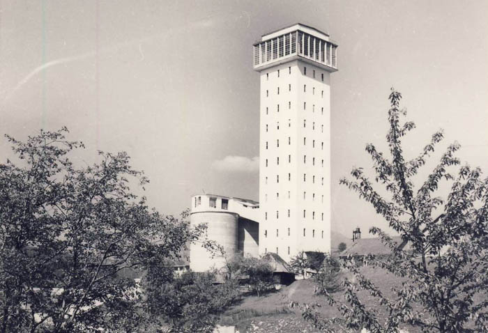 coal mine in Anina